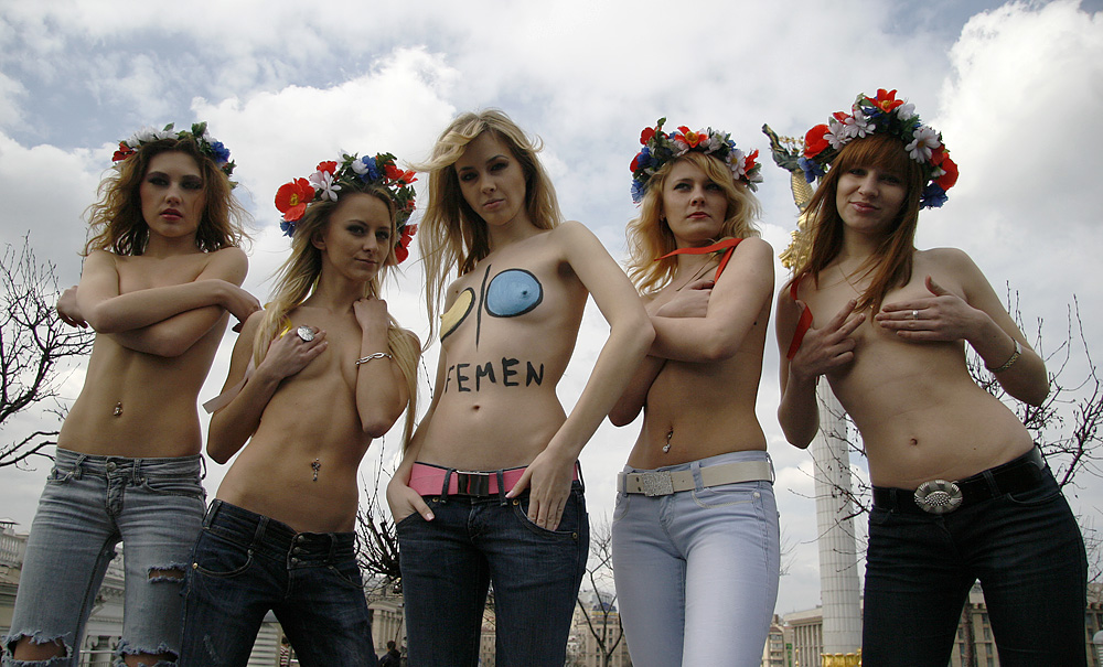 "11 April 2010 FEMEN girls get topless to present a new FEMEN logo. 2 years of FEMEN: logo from famous Russian Designer Artemiy Lebedev plus world fame!"